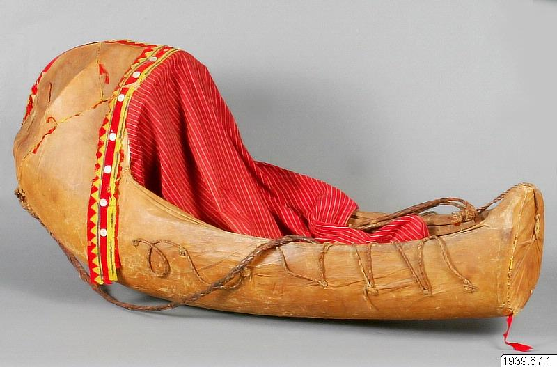 A samic cradle